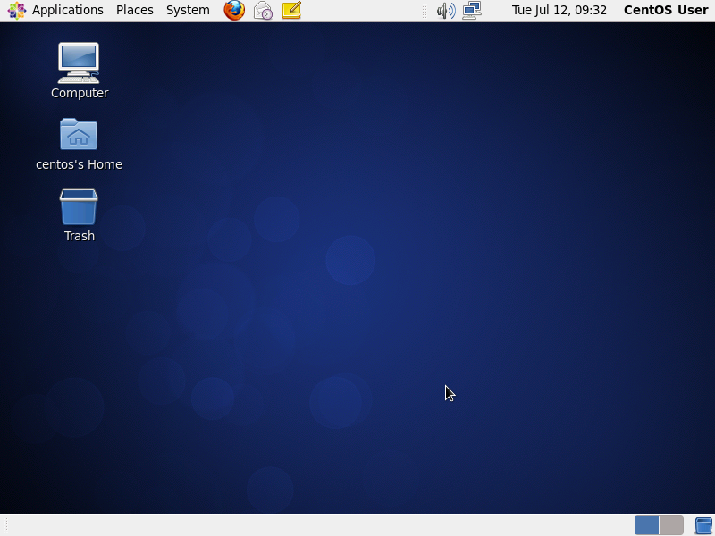 Screenshot of the default CentOS 6.0 configuration